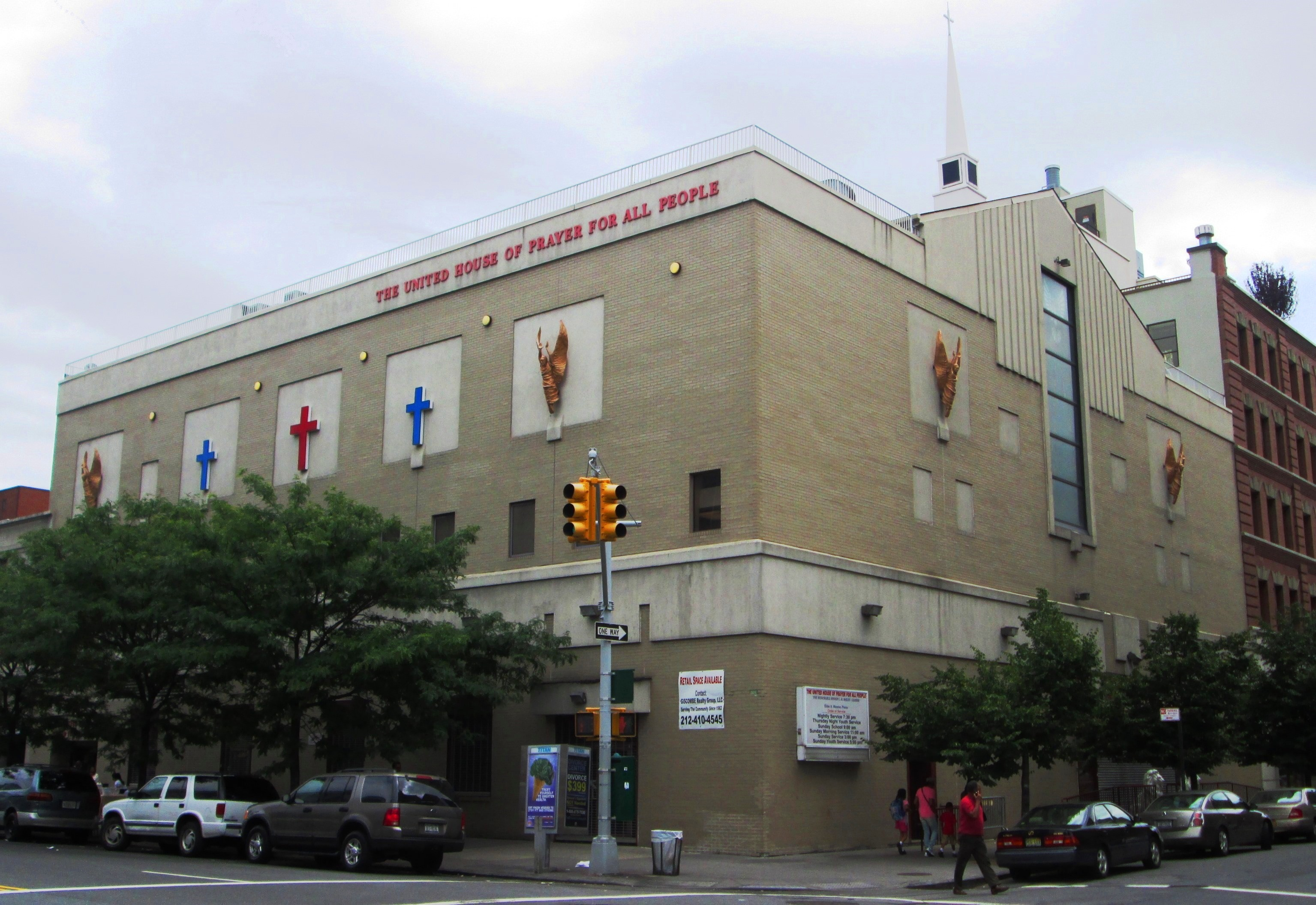 The United House of Prayer for All People at 2320 Frederick Douglass Boulevard on the corners of West 124th and `125th Streets in the Harlem neighborhood of Manhattan, New York City, is a block-long complex which includes a soul food cafeteria and other commercial spaces on 125th Street. A renovation and expansion of the c.1940's building was completed in 1997, overseen by architect Edward E. Cherry, and the sanctuary was re-dedicated in that year. The congregation was founded in 1920 by Bishop C. M. Grace at 20 West 115th Street, but had to move when that building burned down in 1947, however the block there is used for mass baptism by fire hose every August. (Source: From Abyssinian to Zion (2004))